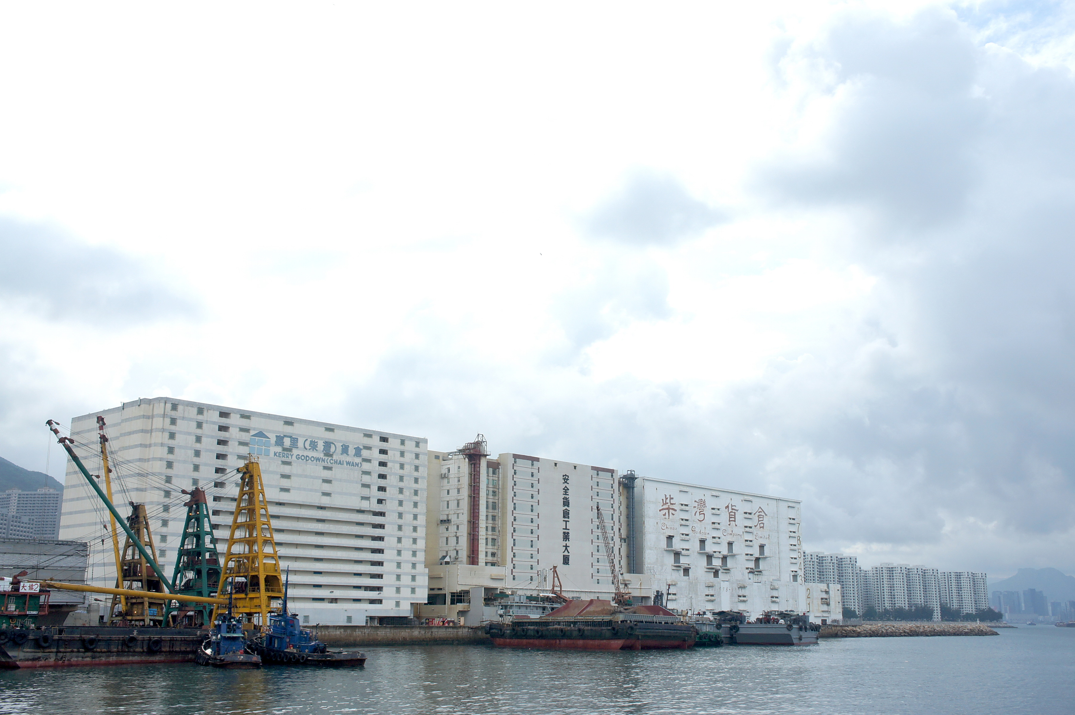 Chai Wan Cargo Handling Basin, Hong Kong.